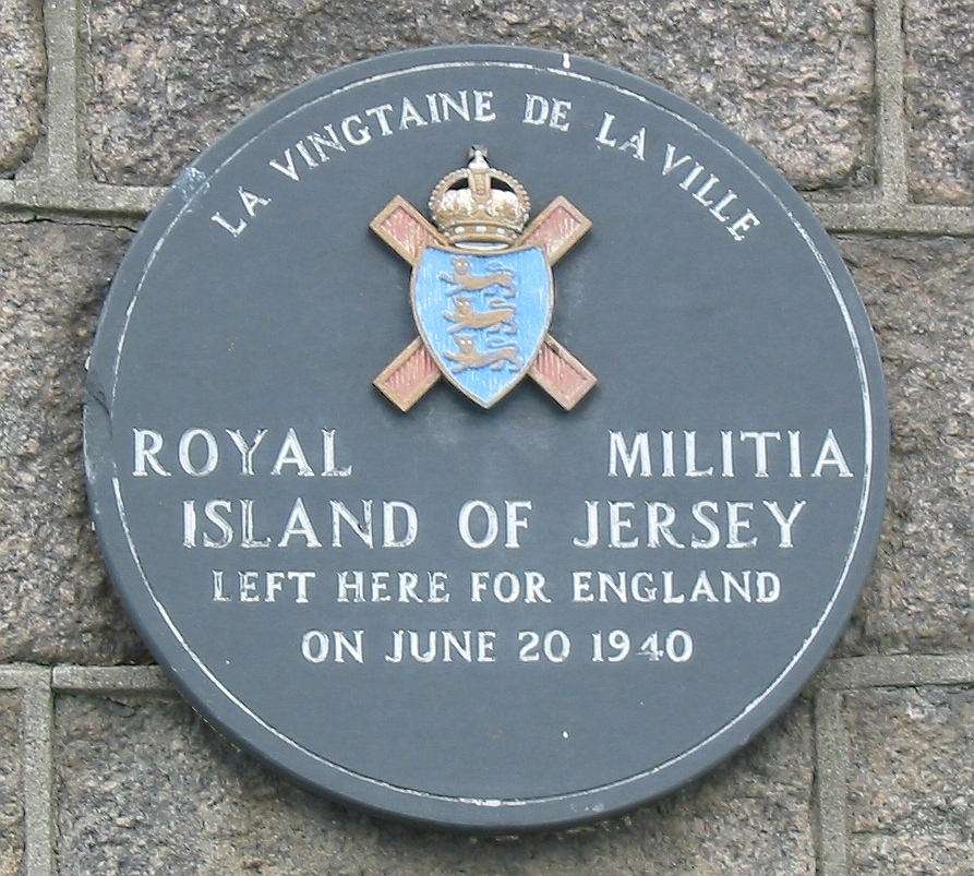 Plaque: 20 June 1940, Jersey